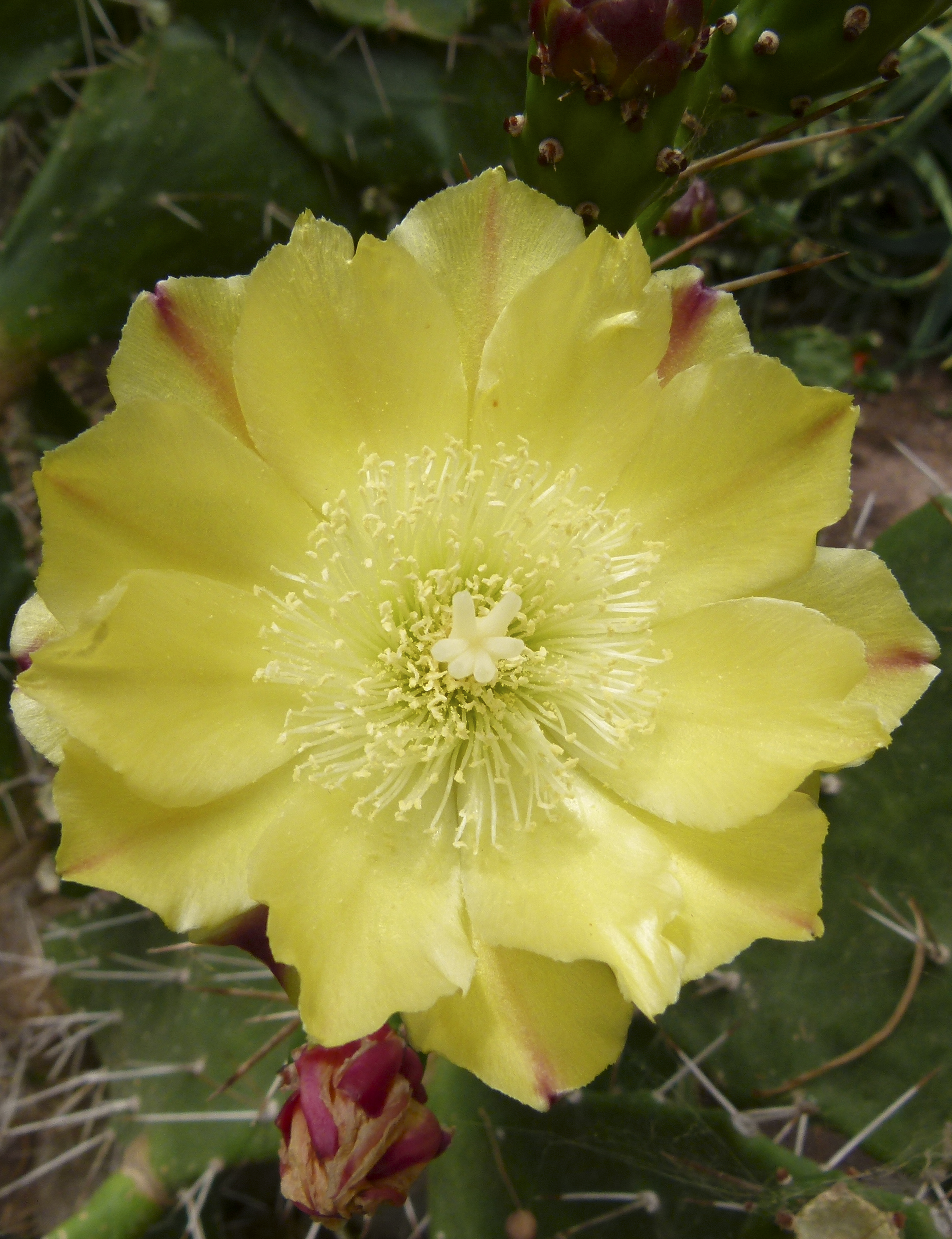 Flower in the Oasis Park, La Lajita, Pájara, Fuerteventura, Canary Islands, Spain